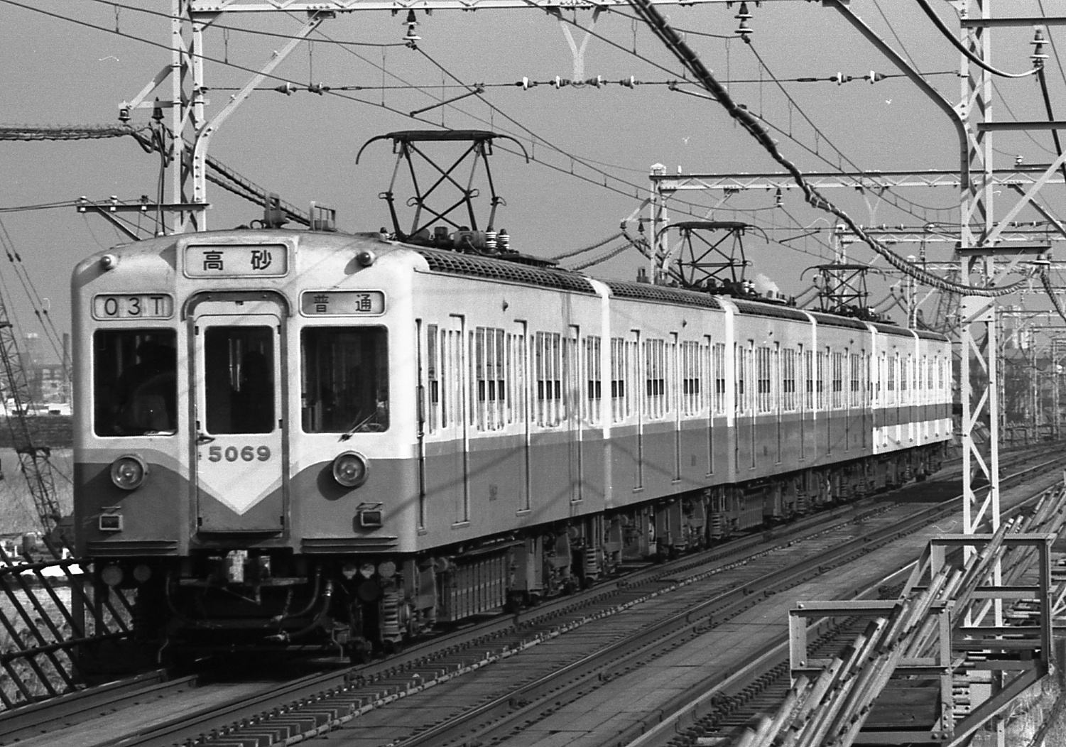 Tokyo Metropolitan Bureau of Transportation type 5000 ruuning over Arakawa bridge